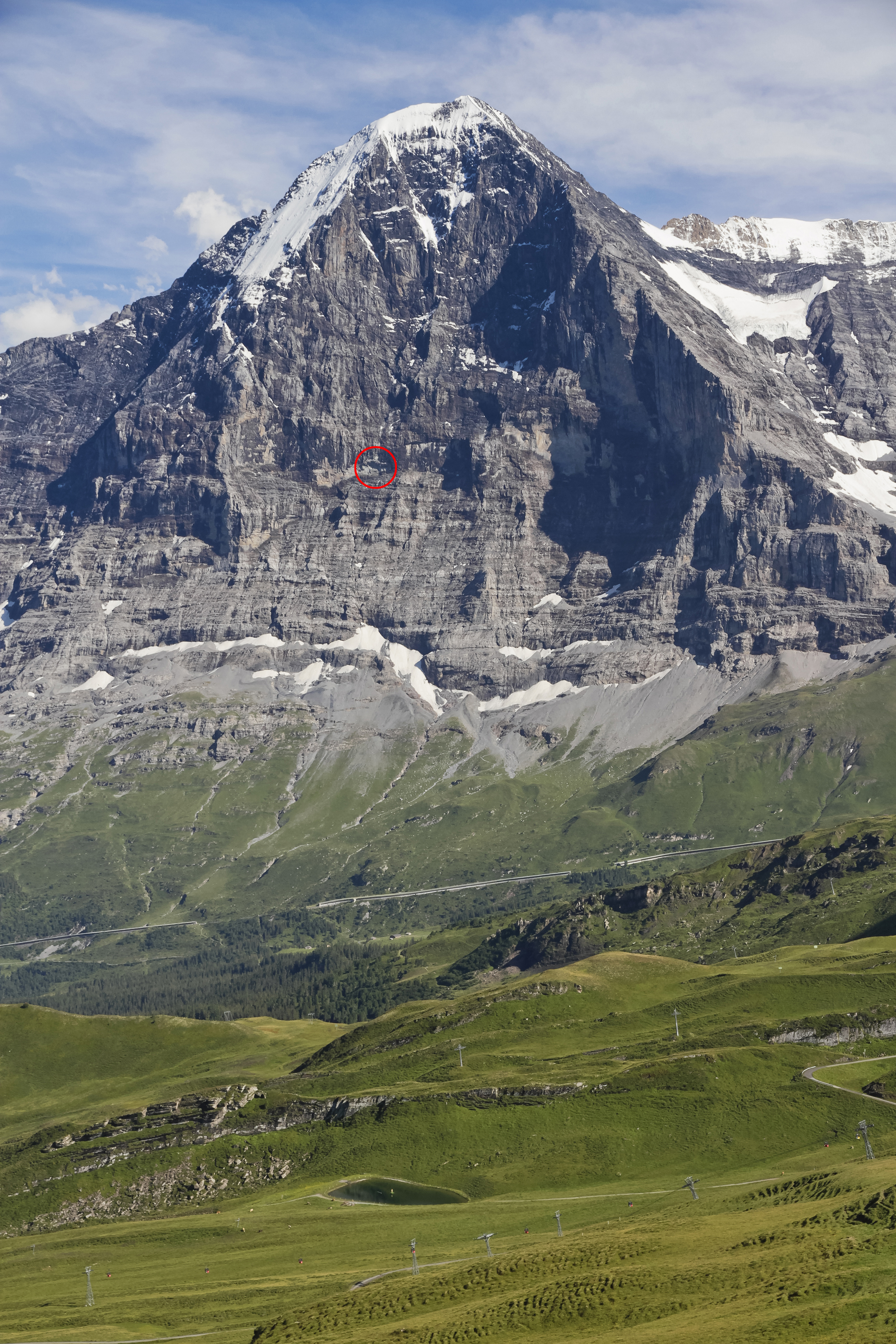 The north face of Eiger as seen from Männlichen in canton of Bern, Switzerland in 2012 August with highlighted railway station.